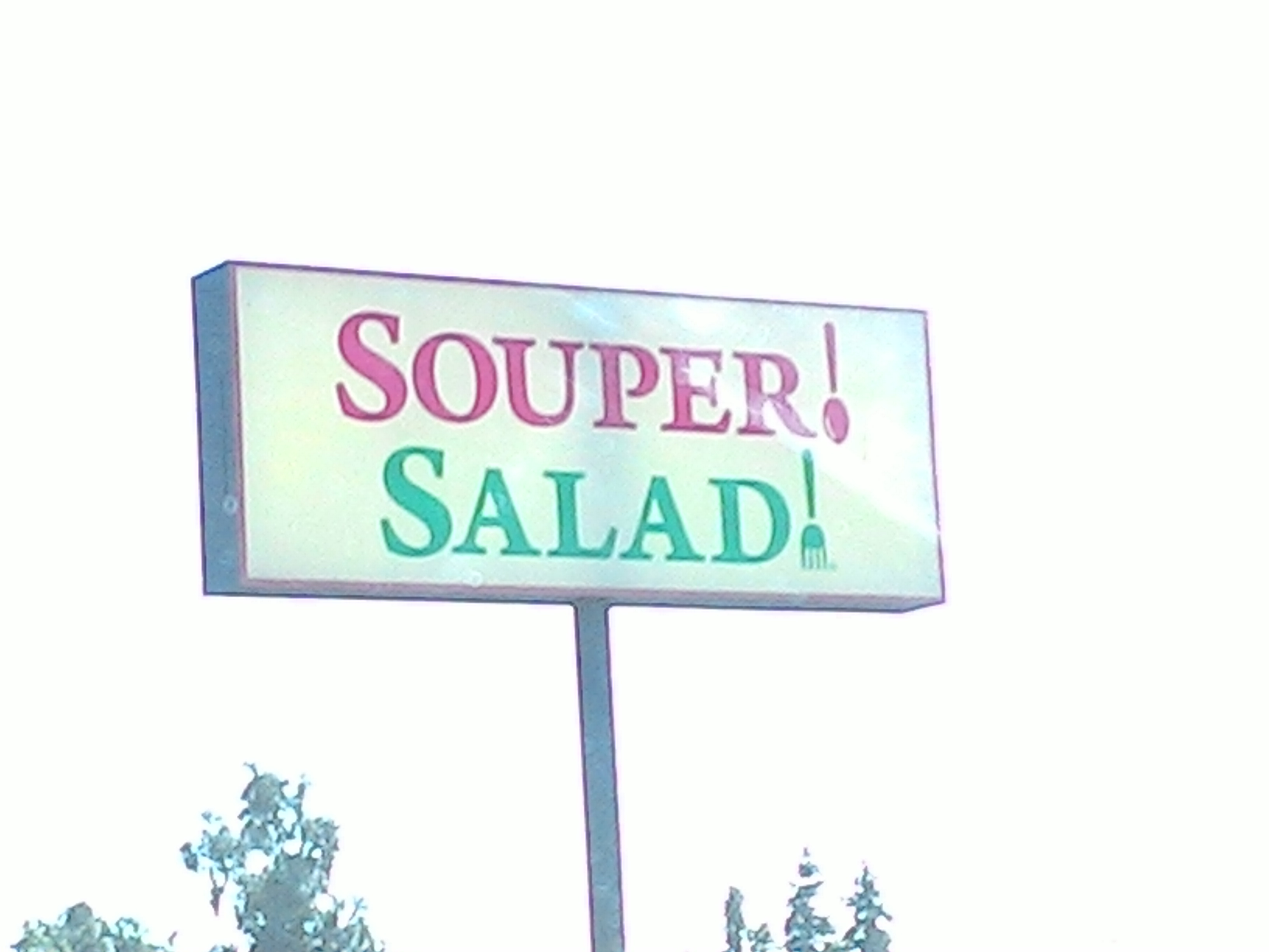 Souper Salad Restaurant Sign